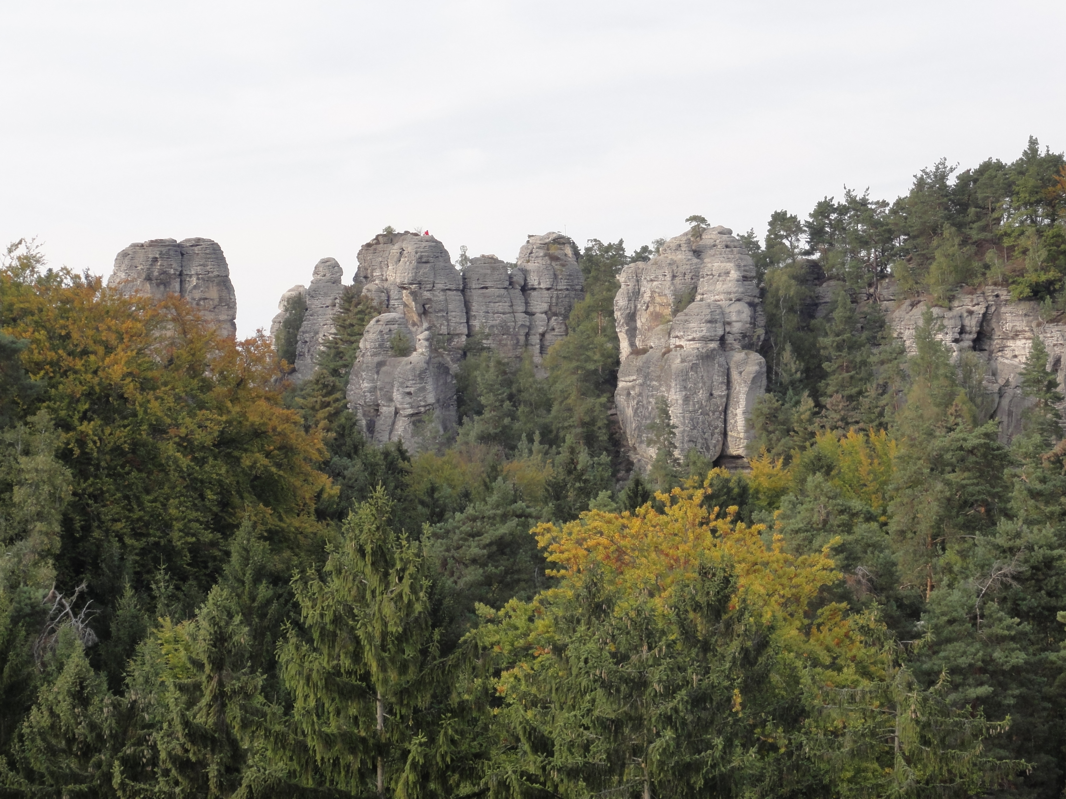 Hruba Skala, on the left is Majak (Lighthouse), small tower front left is Galeon, tripple-tower with red man on top is Brana (Gate), the tallest one behind him with tree could be Zelenac (Greenhorn), can't exactly identify small towers between them, middle right is duo Divci + Kavci, on the right with lot of trees is Centralni Masiv.